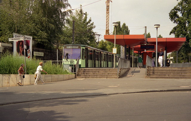 Stadtbahn car at Bad godesberg-Rheinallee